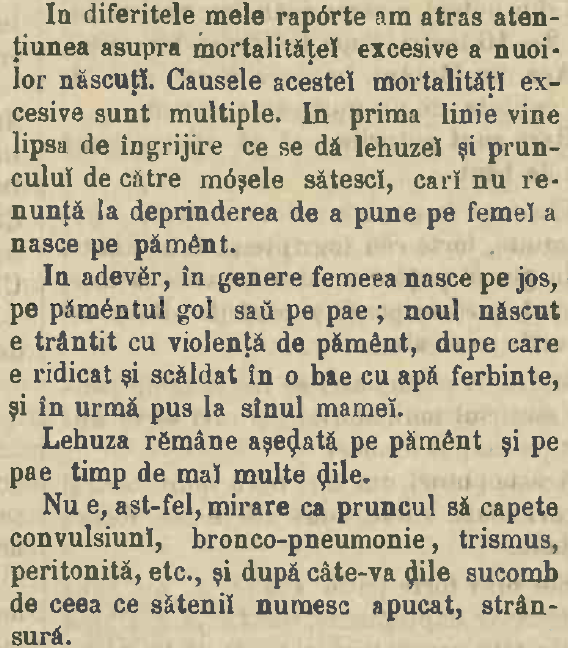 Report by Brăila County's doctor about assisting births, 1895.Romania